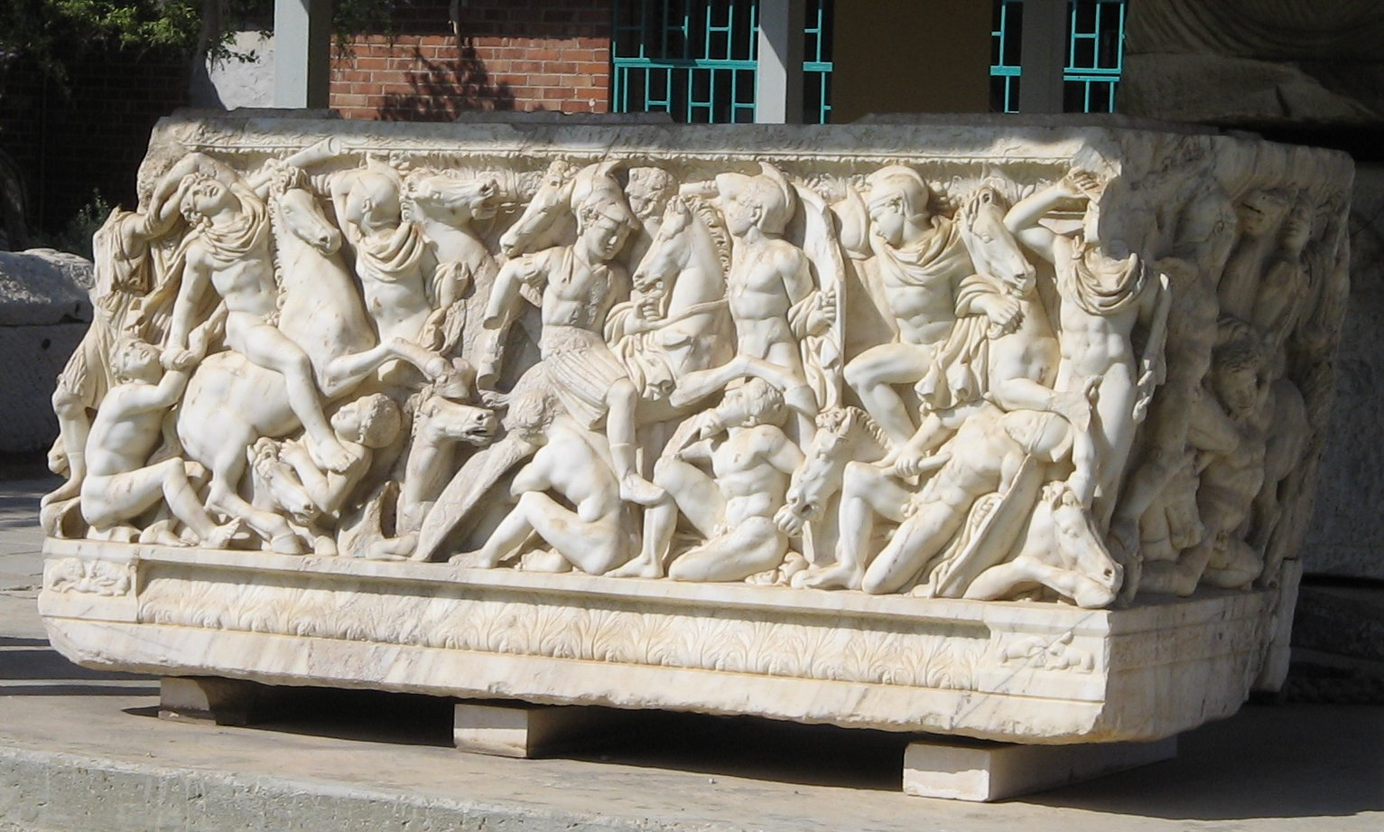 Depiction of Hellenist era Greek soldiers fighting Barbarians on a Sarcophagus, found in Ashkelon, Israel.